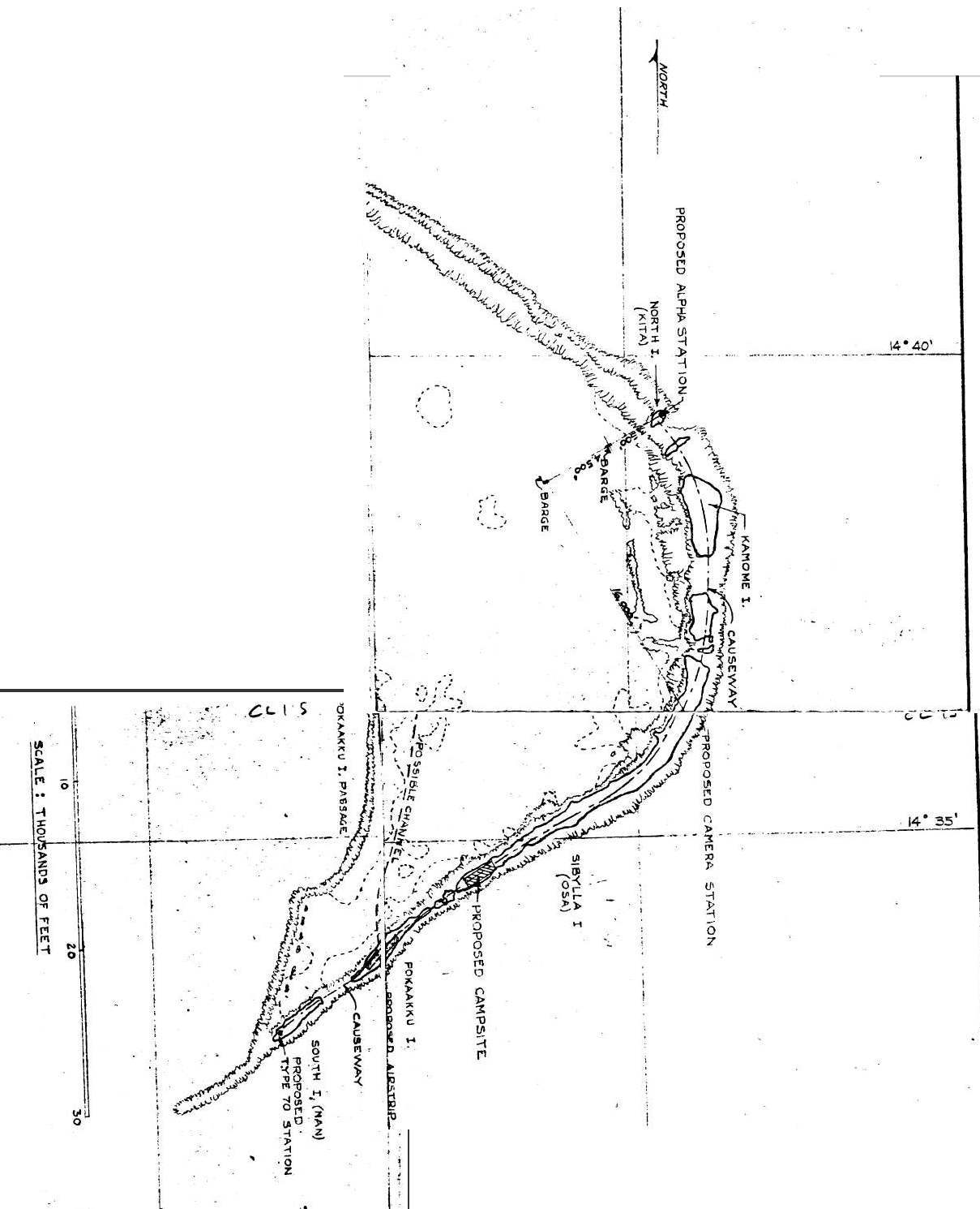 Montage of maps from Taongi Atoll nuclear test site master plan.